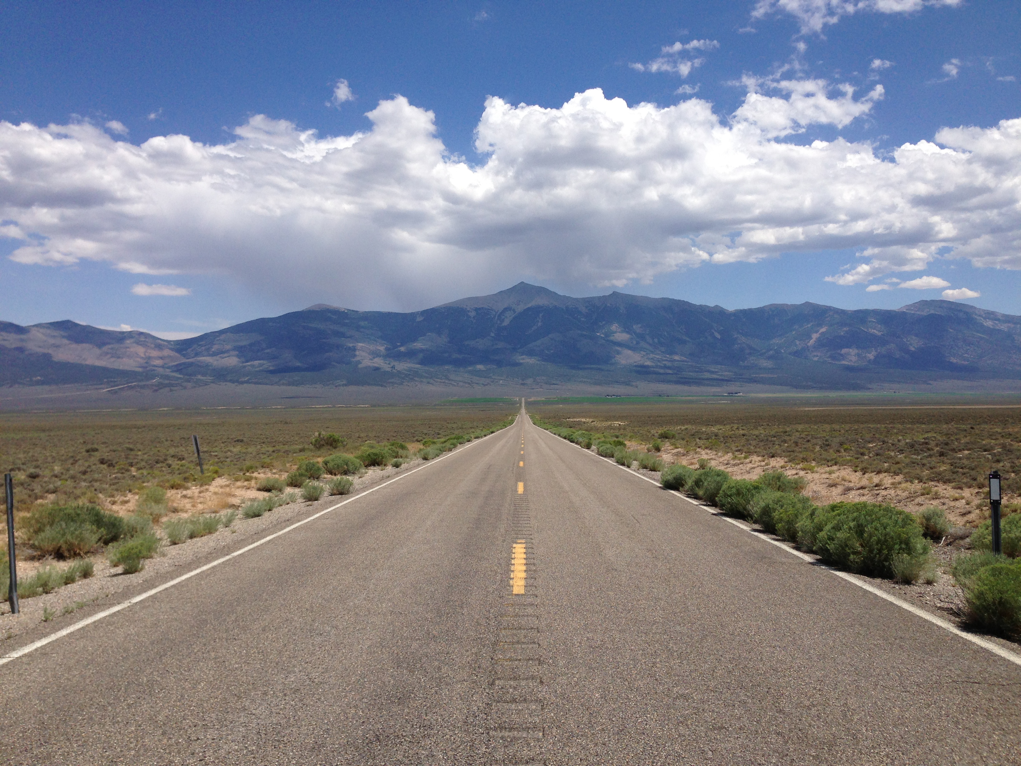 View south along Nevada State Route 894 (Shoshone Road) about 16.1 miles north of the end of pavement in Shoshone, Nevada